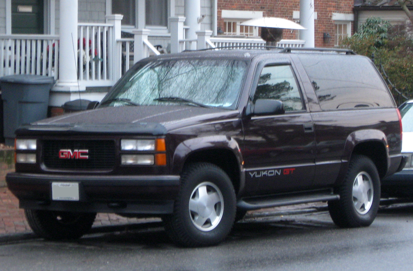 GMC Yukon GT photographed in Annapolis, Maryland, USA.